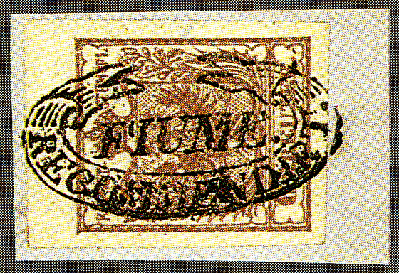 Stamp of Austria KK, 6 kreuzer issue 1850, combined registration and town postmark FIUME (Rijeka, Croatia). Mueller type IF (85x15 P).